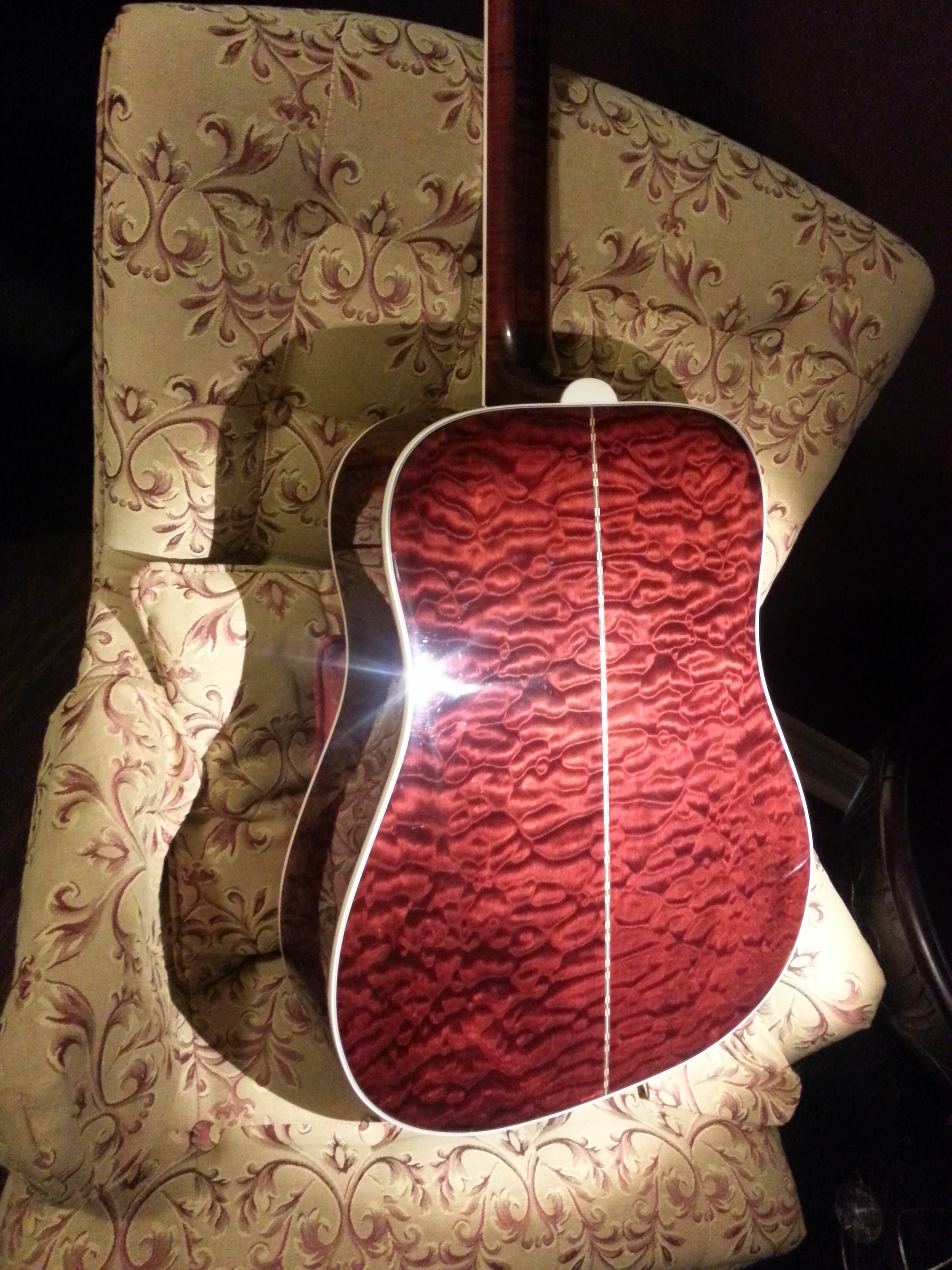 Rare Quilted Maple Back and Side for Gibson Dove 1 of 20